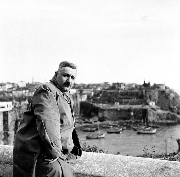 Ali Saim Ülgen at the Antalya Marina SALT Research, Ali Saim Ülgen Archive Ali Saim Ülgen Antalya Yat Limanı’nda SALT Araştırma, Ali Saim Ülgen Arşivi